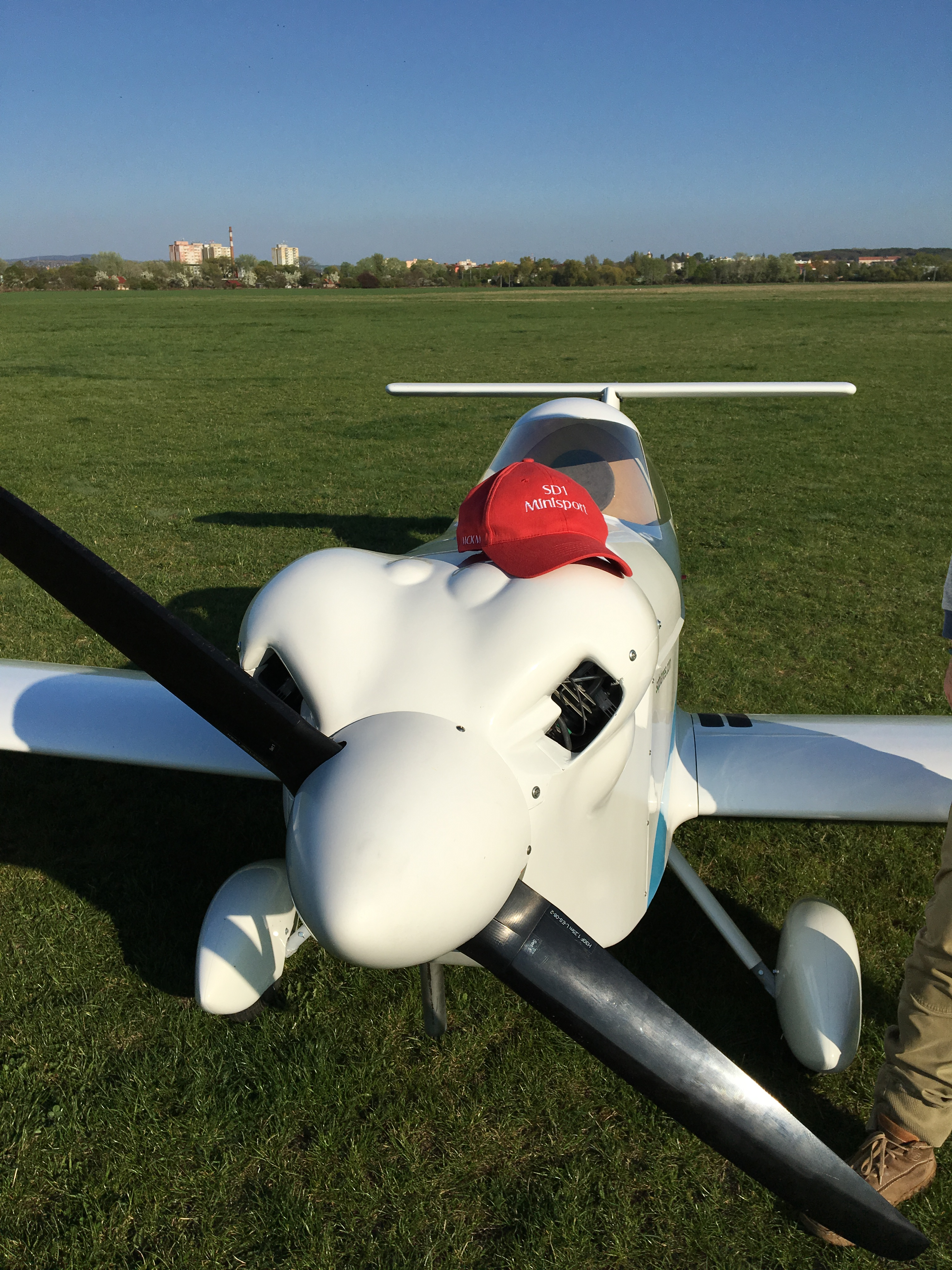 Cowling carbon fiber. Propeller carbon fiber helix 1.25 m. Aircraft landing gear carbon fiber. Engine Briggs & Stratton Vanguard (33 hp, 990 cc, TBO 1000 hrs)